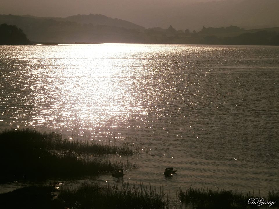 Took this at Glan Conwy Railway Station.